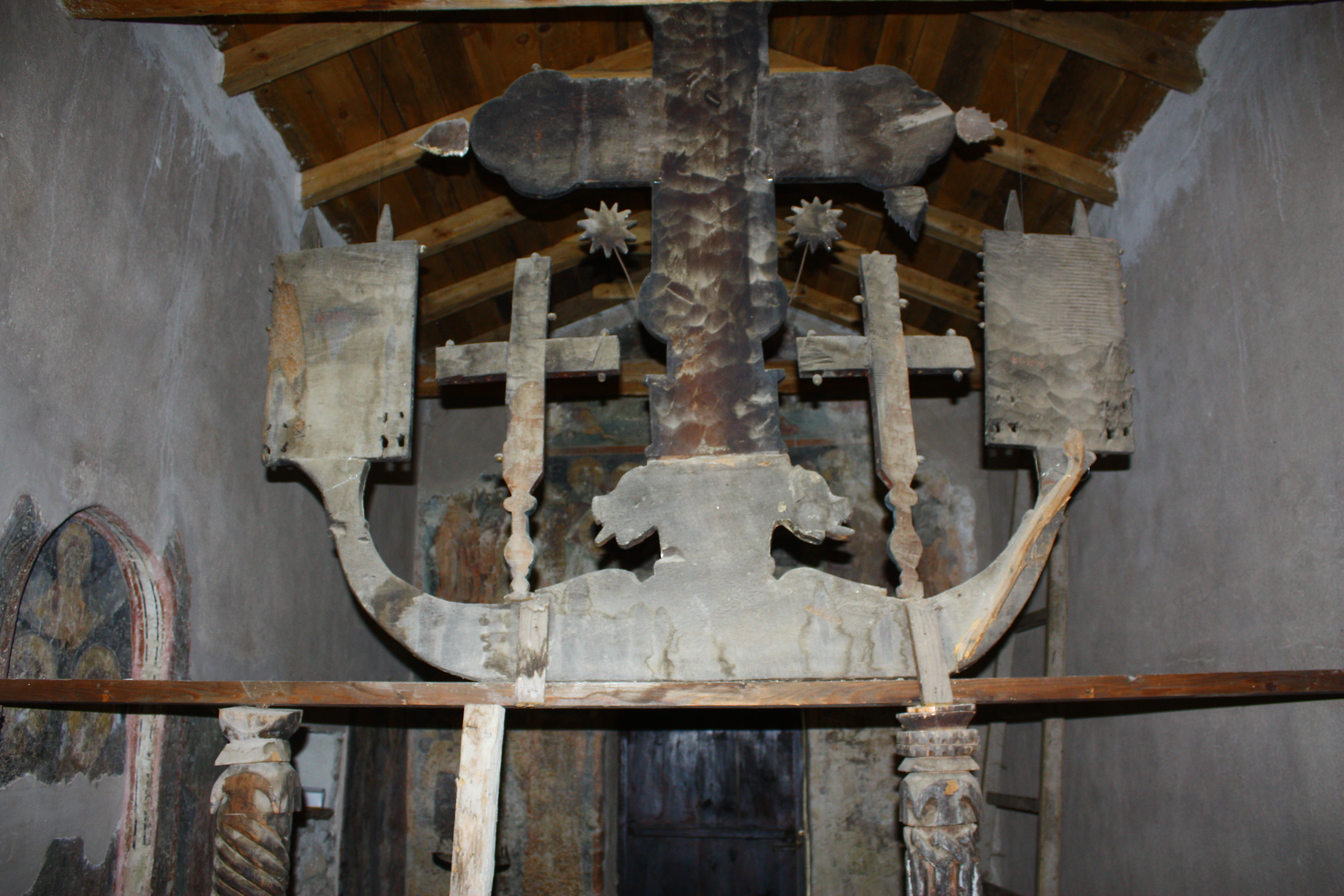 Cosmas and Damian the Lesser Church in Ohrid, Macedonia